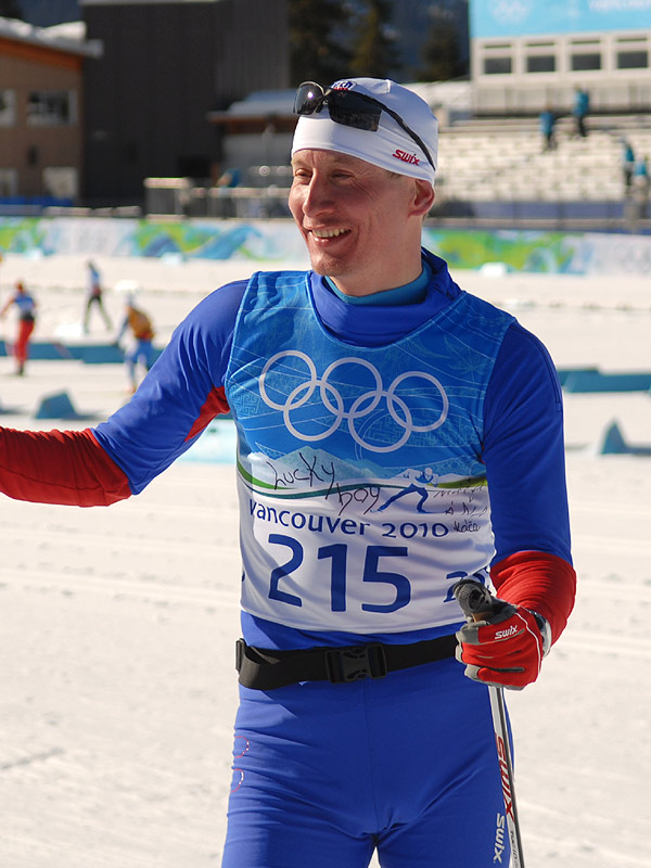 Czech cross-country skier Lukáš Bauer at the Vancouver 2010 Olympics.